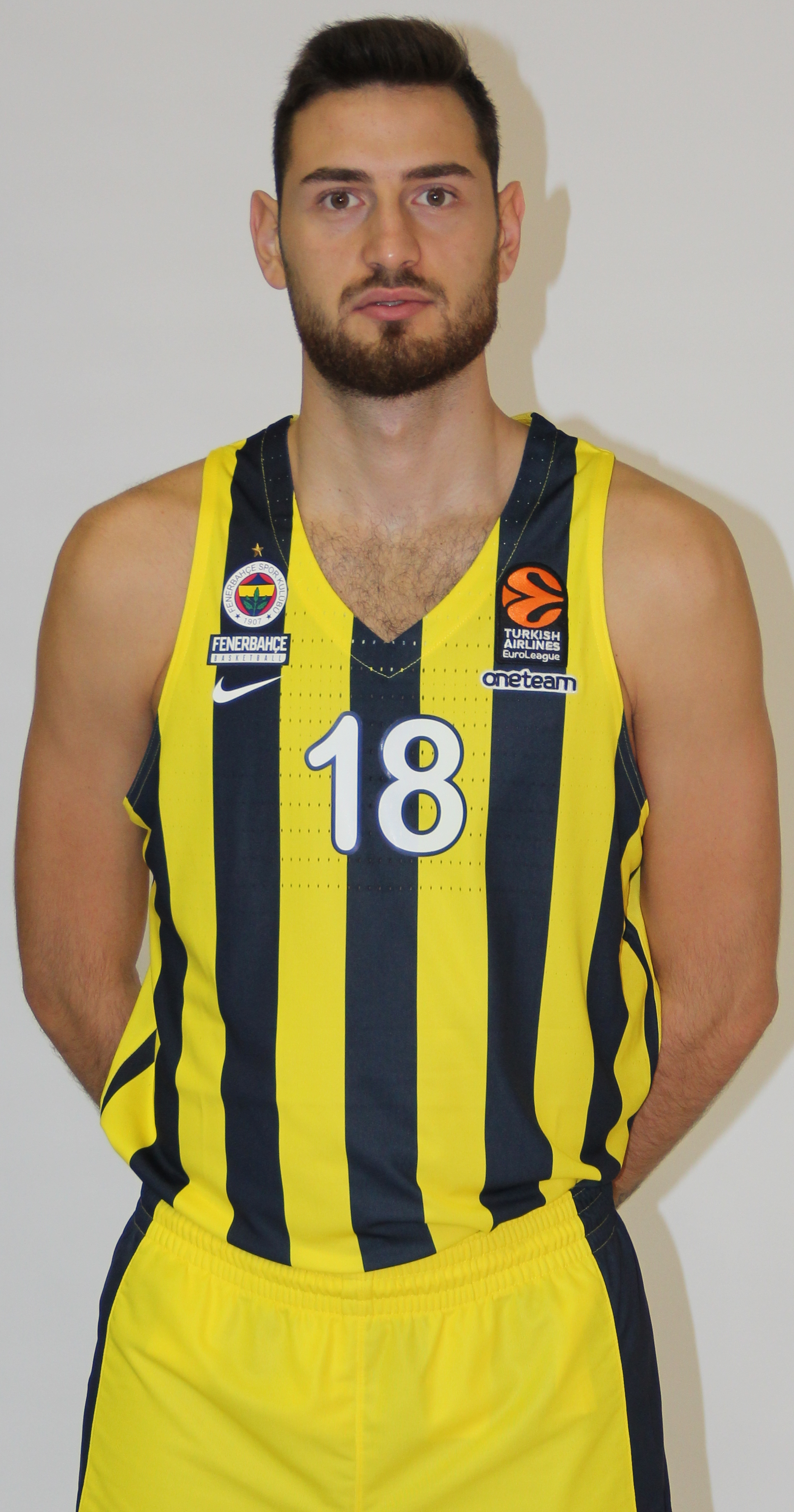 Egehan Arna Fenerbahçe Basketball Media Day 20180925